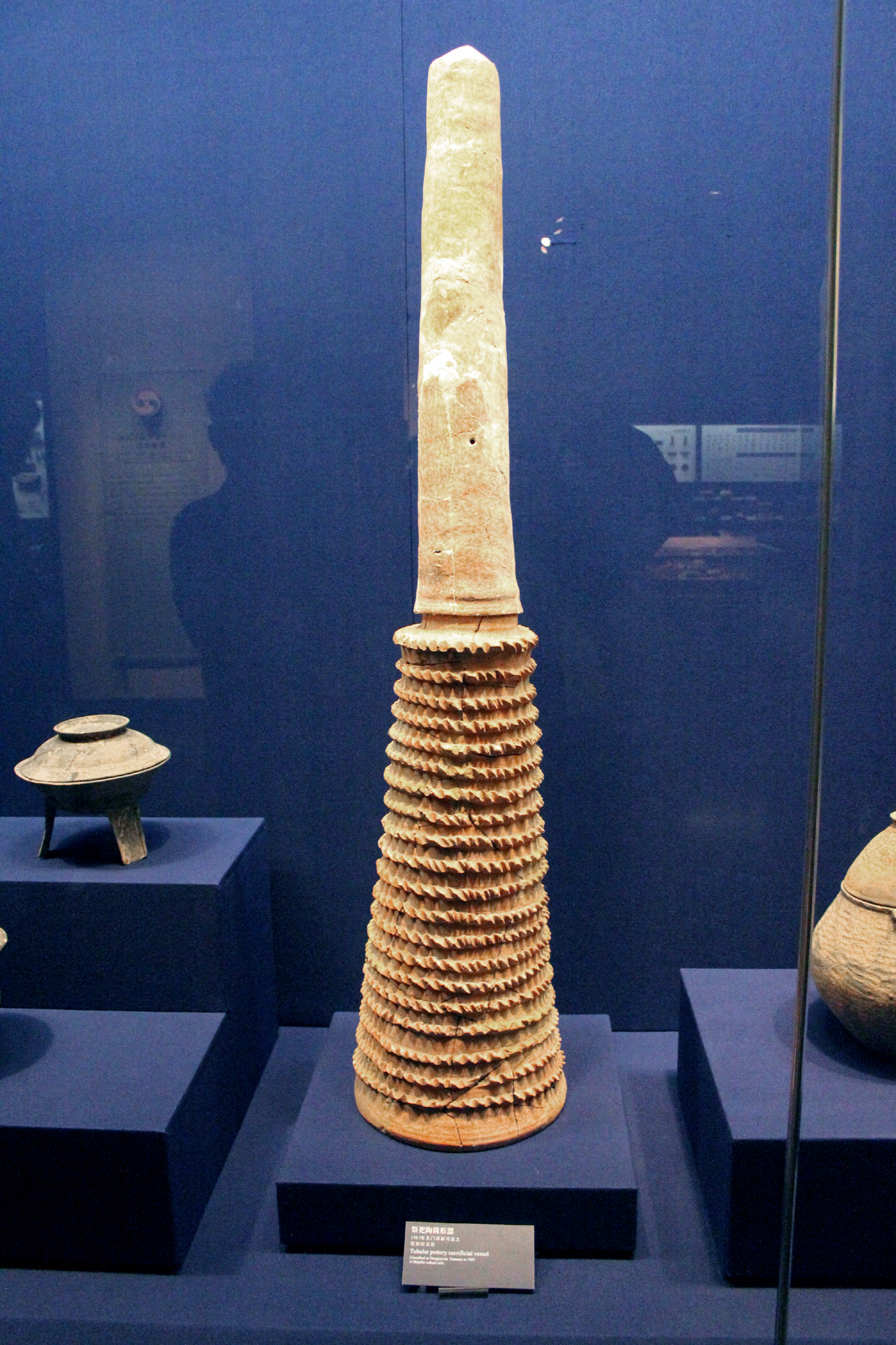 Tubular pottery sacrificial vessel. Unearthned at Dengjiawan, Tianmen in 1987. A Shijiahe culture relic. Hubei Provincial Museum, Wuhan, Paleolithic, Neolithic & Shang Exhibit.